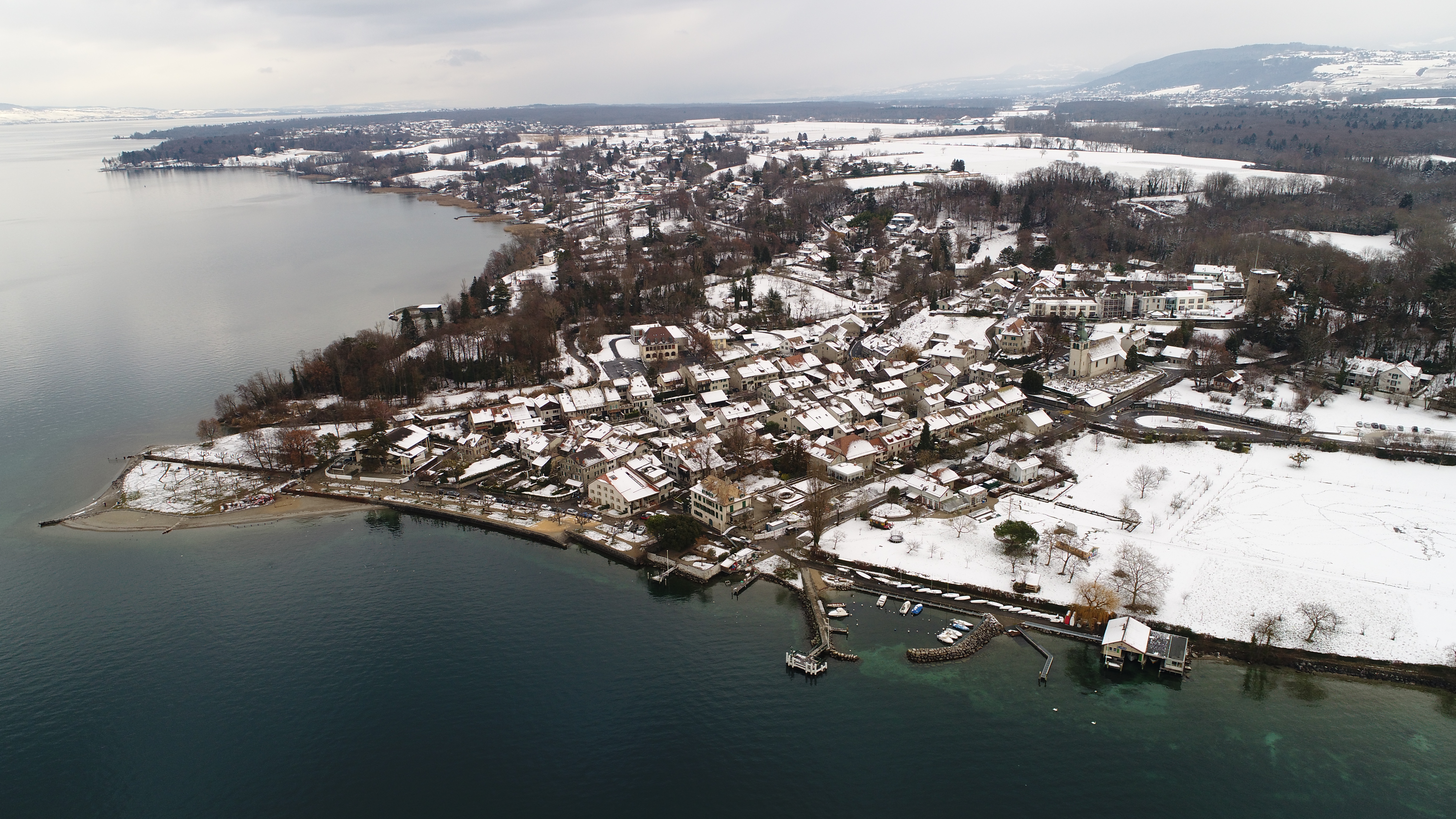 Hermance